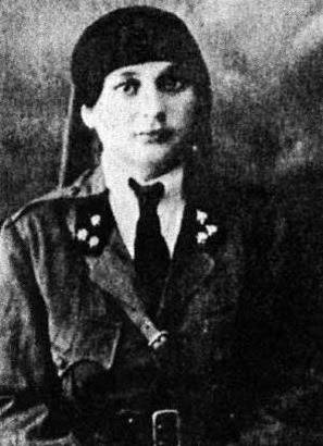 Portrait of Naziq al-Abid in military uniform. Al-Abid was a volunteer in the Battle of Maysalun and founder of the Red Star, predecessor of the Red Crescent